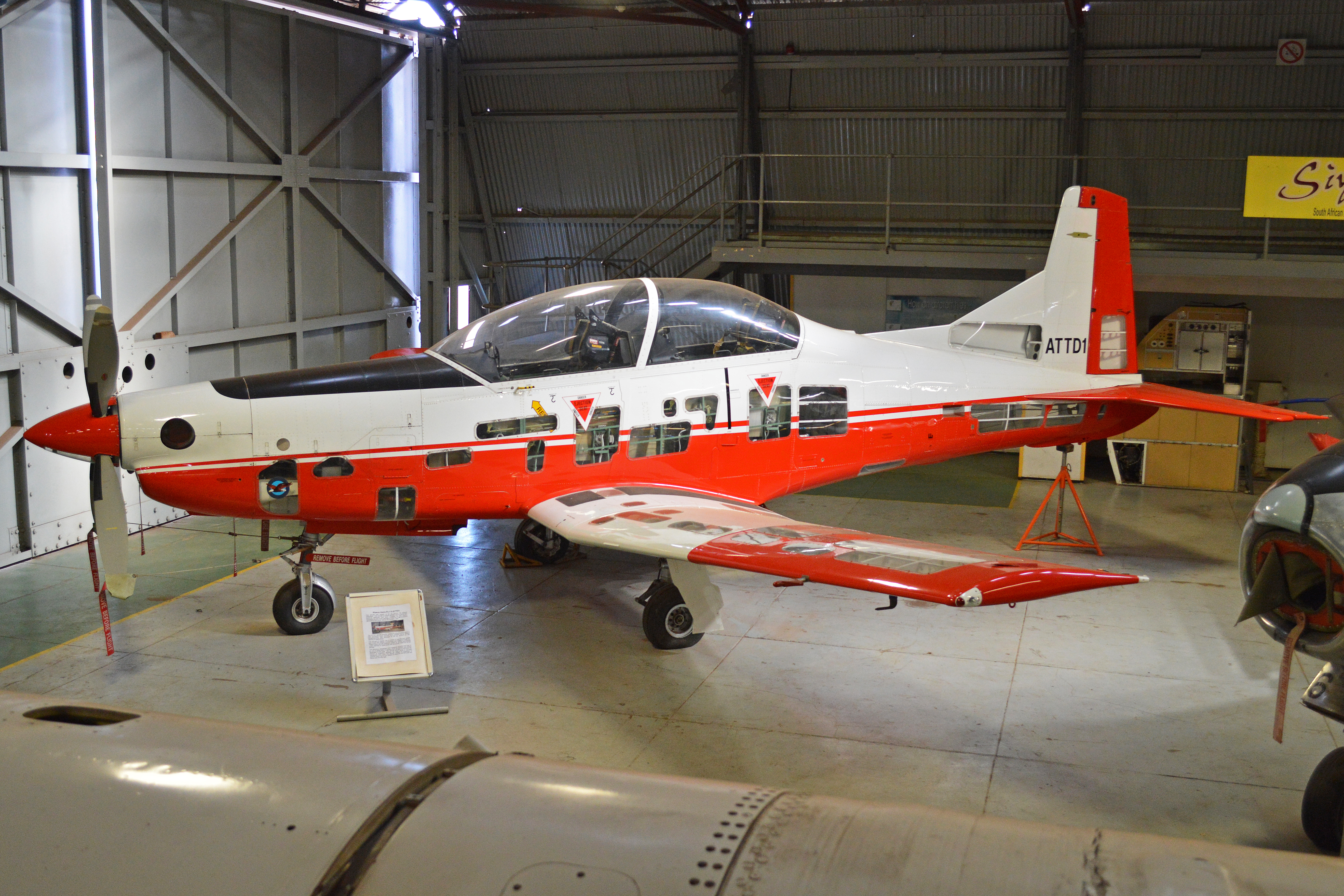 This is one of two full size engineering mock-ups supplied to the SAAF by Pilatus, alongside the order for 60 operational trainers. It is now on display in Hangar 2 at the South African Air Force Museum. Swartkop Airfield, Pretoria, South Africa. 19-9-2014